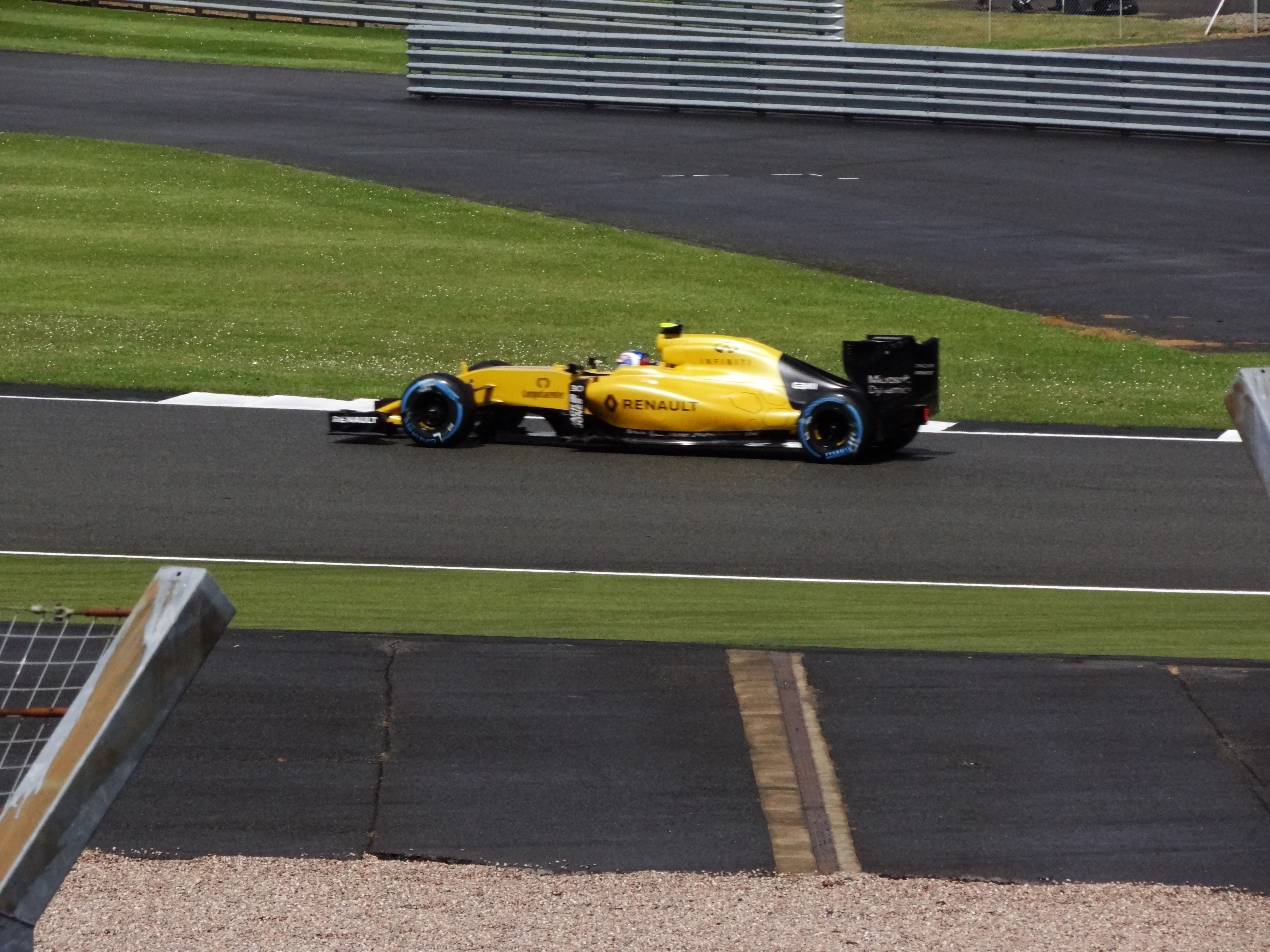 Jolyon Palmer in the Renault RS16, 2016 British Grand Prix